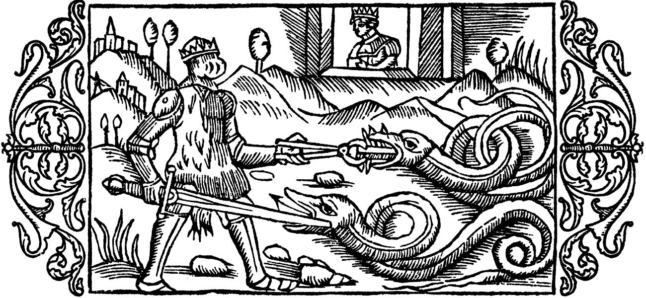 On Alf, the Defender of Chastity. Alf, a suitor to the princess Alvilda kills two serpents who are guarding her chastity. To vex them he wears a bloody hide over his armour. One snake (a vipera) is killed with a red-hot piece of iron he holds with a pair of tongs. The other (an anguis) is killed with a sword. From Olaus Magnus History of 1555.